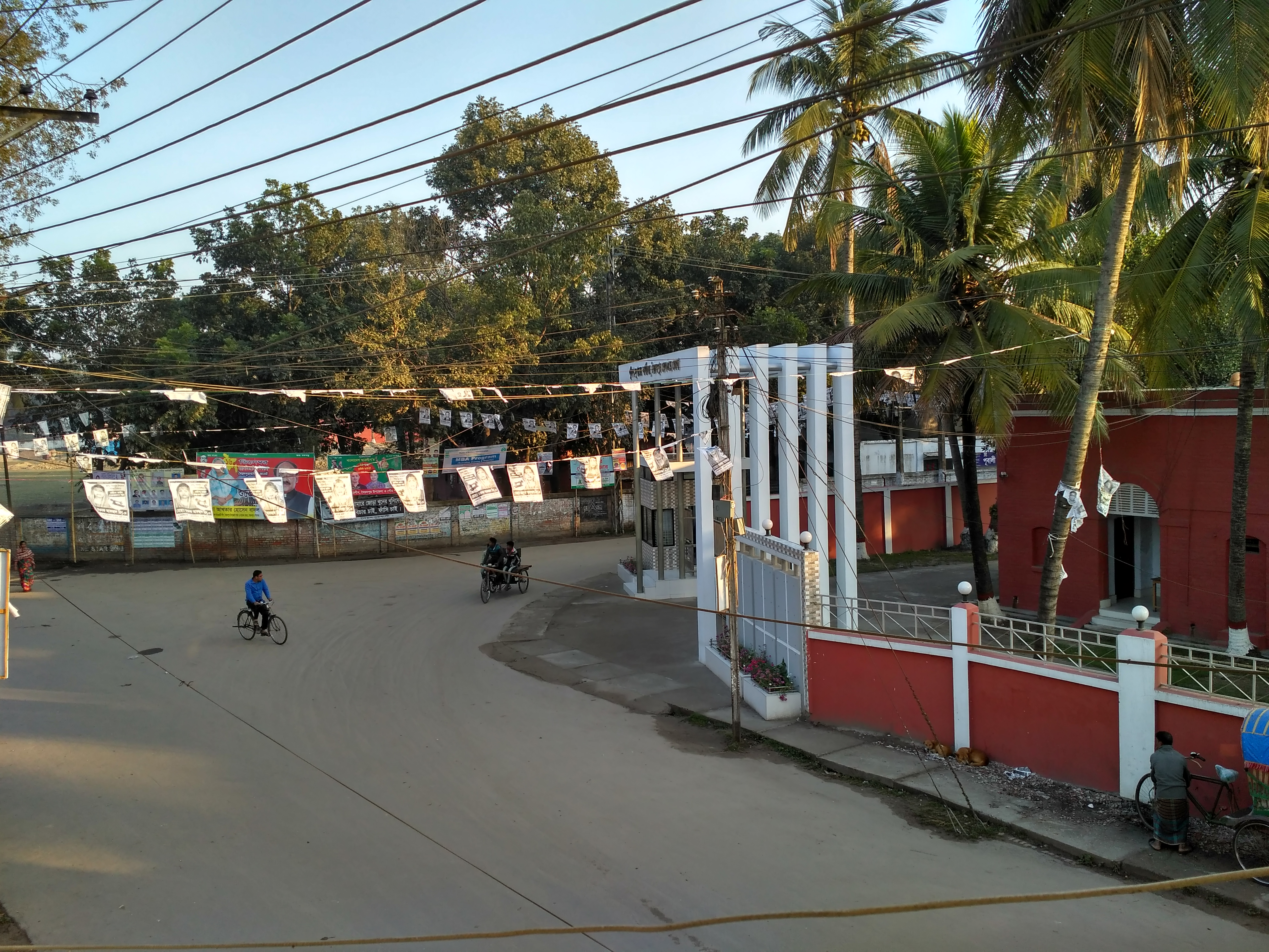 View of the road in front of the police club, Saidpur, Nilphamari, Bangladesh. (01.03.2019)